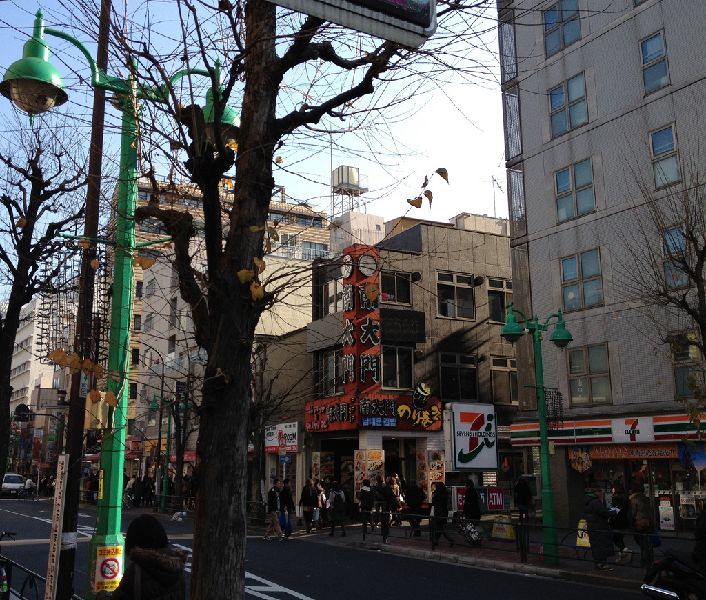 Daytime in downtown Shin-Okubo district in Tokyo. This is the famous Korean neighborhood in Tokyo.